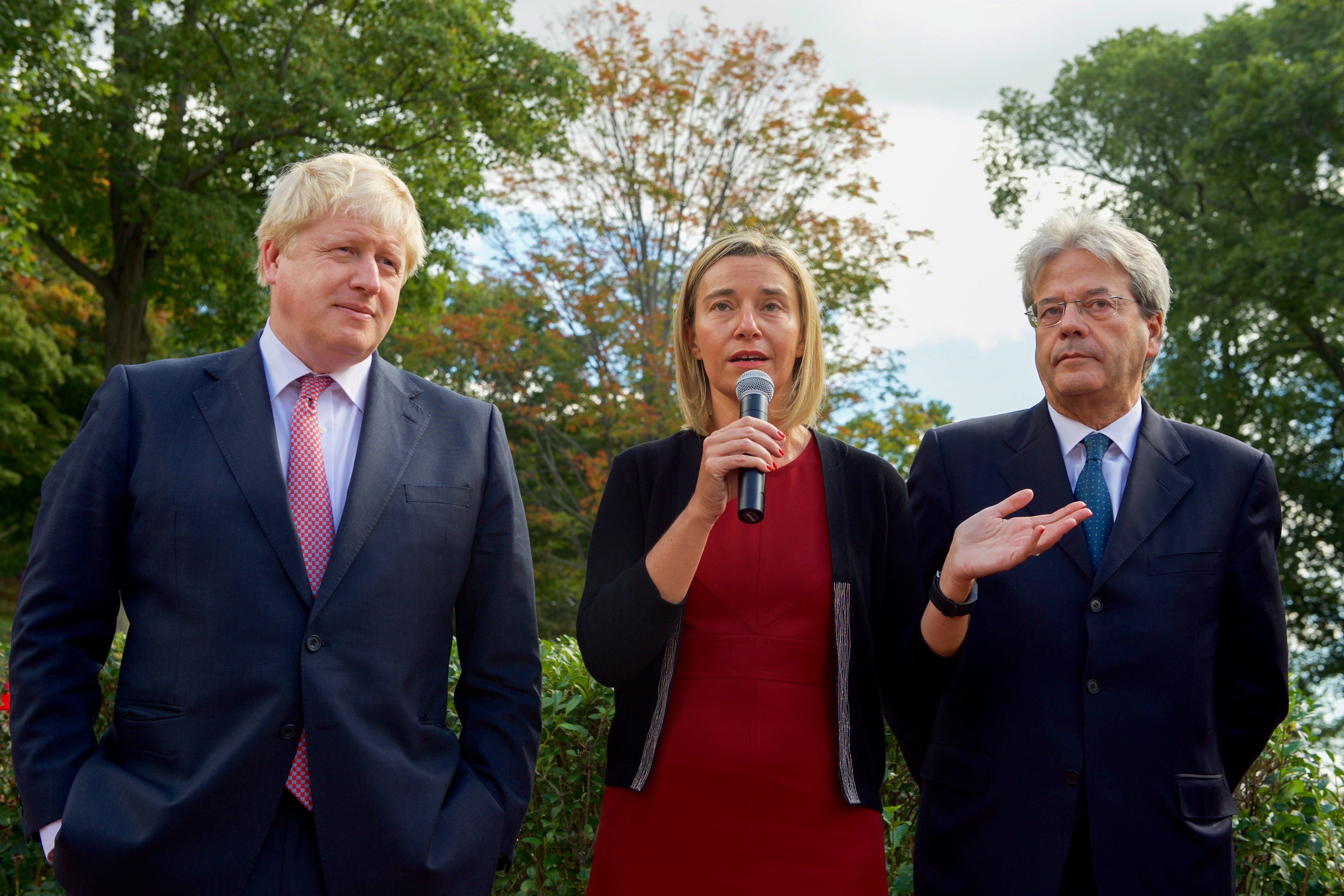 European Union High Representative for Foreign Affairs Federica Mogherini, flanked by U.S. Secretary of State John Kerry and the Foreign Ministers from the France, Germany, Italy, and the United Kingdom, addresses students from the Fletcher School of Law and Diplomacy and Tisch College on September 24, 2016, at Gifford House on the campus of Tufts University in Medford, Mass., before a meeting of the so-called Quintet in the Secretary's home-state of Massachusetts. [State Department photo/ Public Domain]